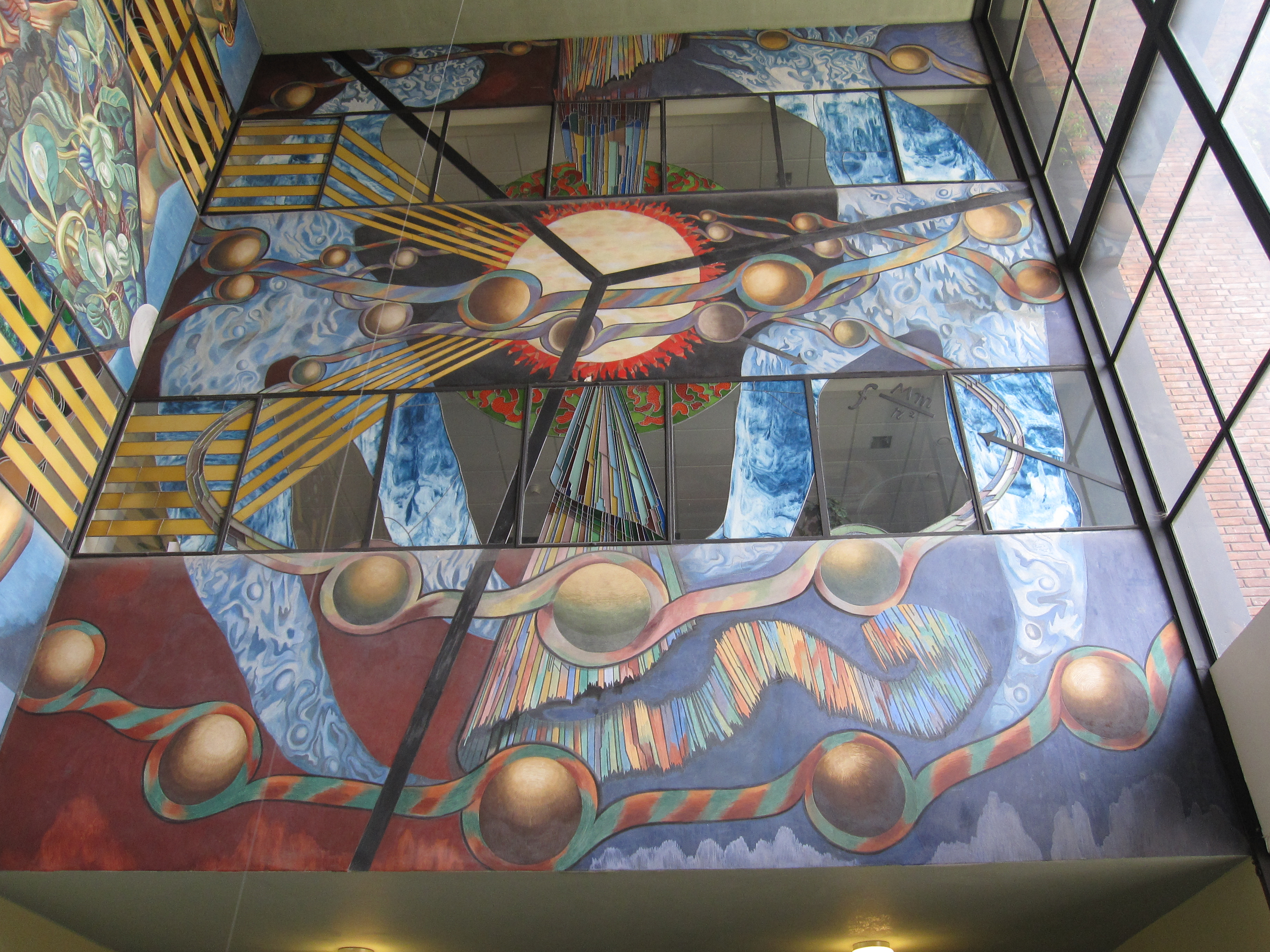 Mural and glass paintings on the eastern wall in the central Physics building at the University of Oslo Blindern campus. These mural paintings were made by Per Lasson Krohg (1889-1965) and finished in 1938. On this wall he focused on our Sun and the planets, surrounding them with star galaxies in the shape of a woman and a man. Northern lights are also central in the painting, not so strange since northern lights was also central theme at the University in the first decades of the 20th century, when Professor Kristian Birkeland (1867-1917) first proposed the electrical mechanism behind this eerie, atmospheric phenomenon.